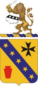 104th Cavalry Regiment coat of arms